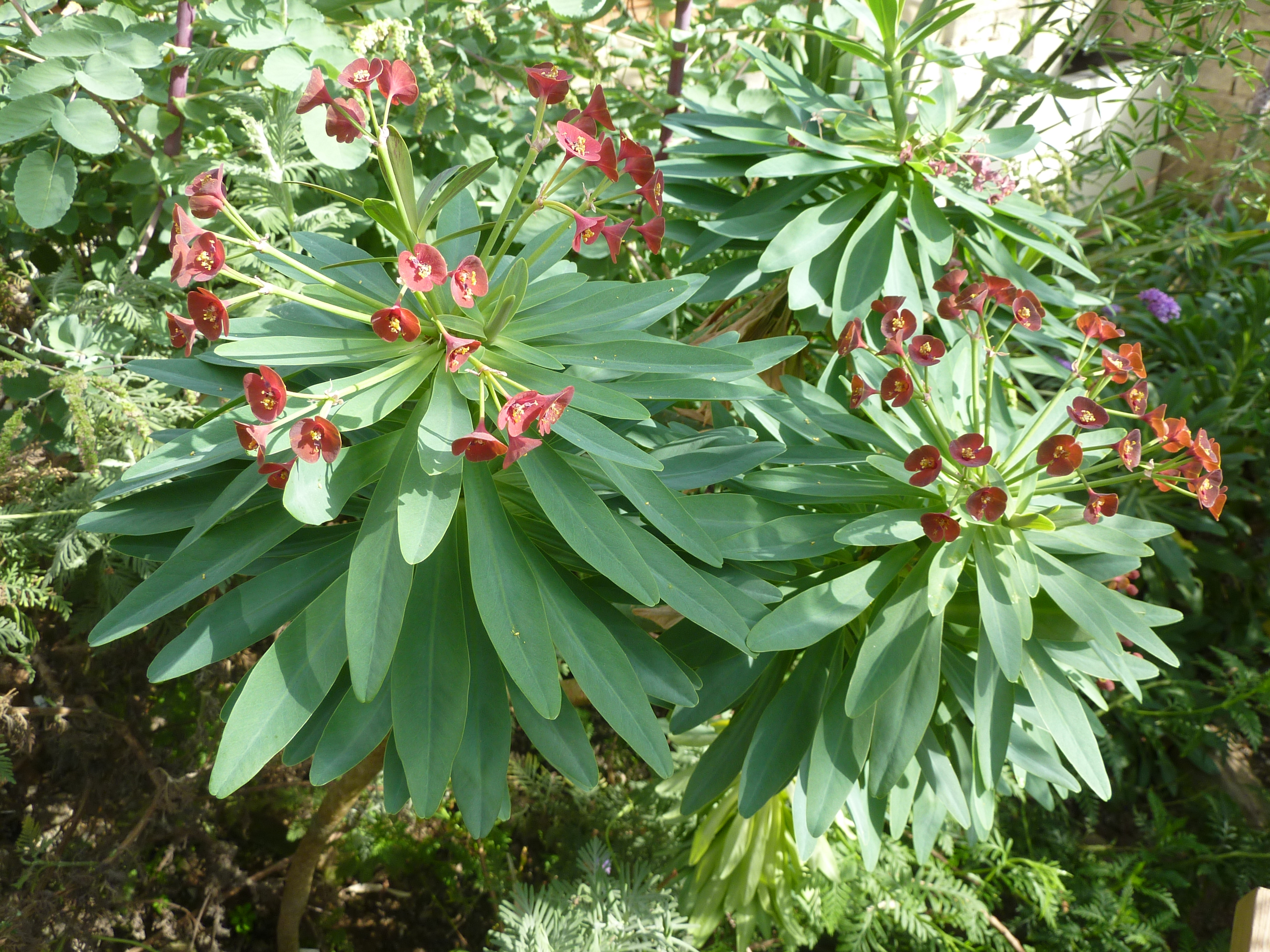 Taken in the Cambridge University Botanic Garden.